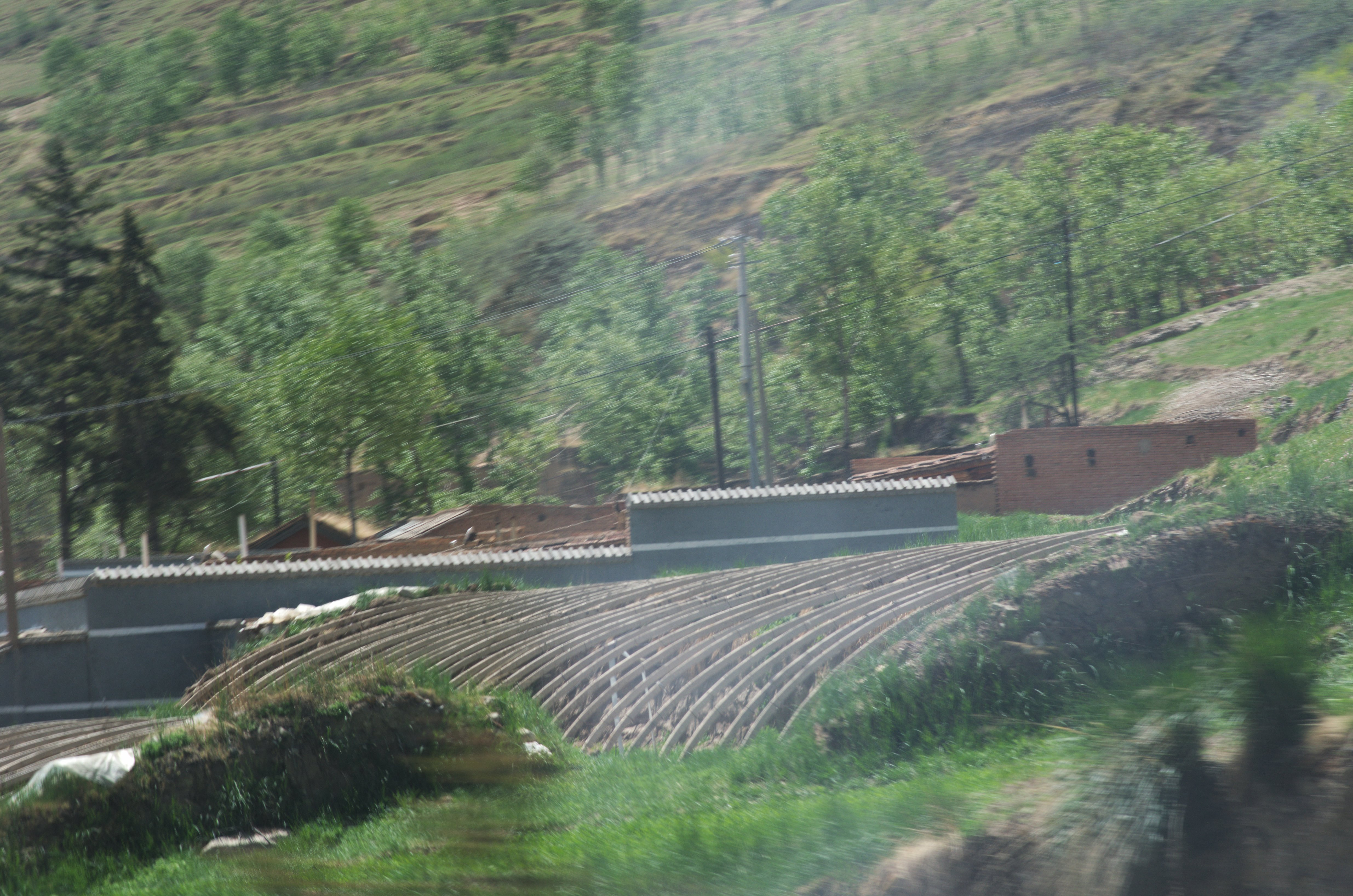 Greenhouse in a village of Tibetan plateau, on the Huangyuan County, Xining municipality, Qinghai province, Chine.